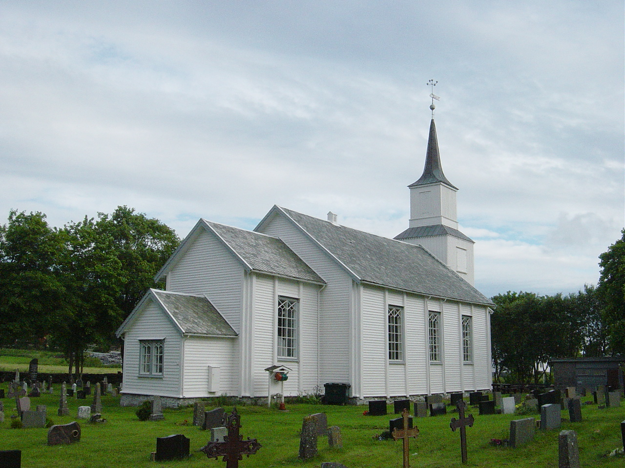 Fræna and the Hustad kirke